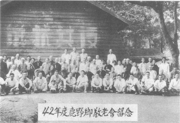 Anti-communism in Taiwan